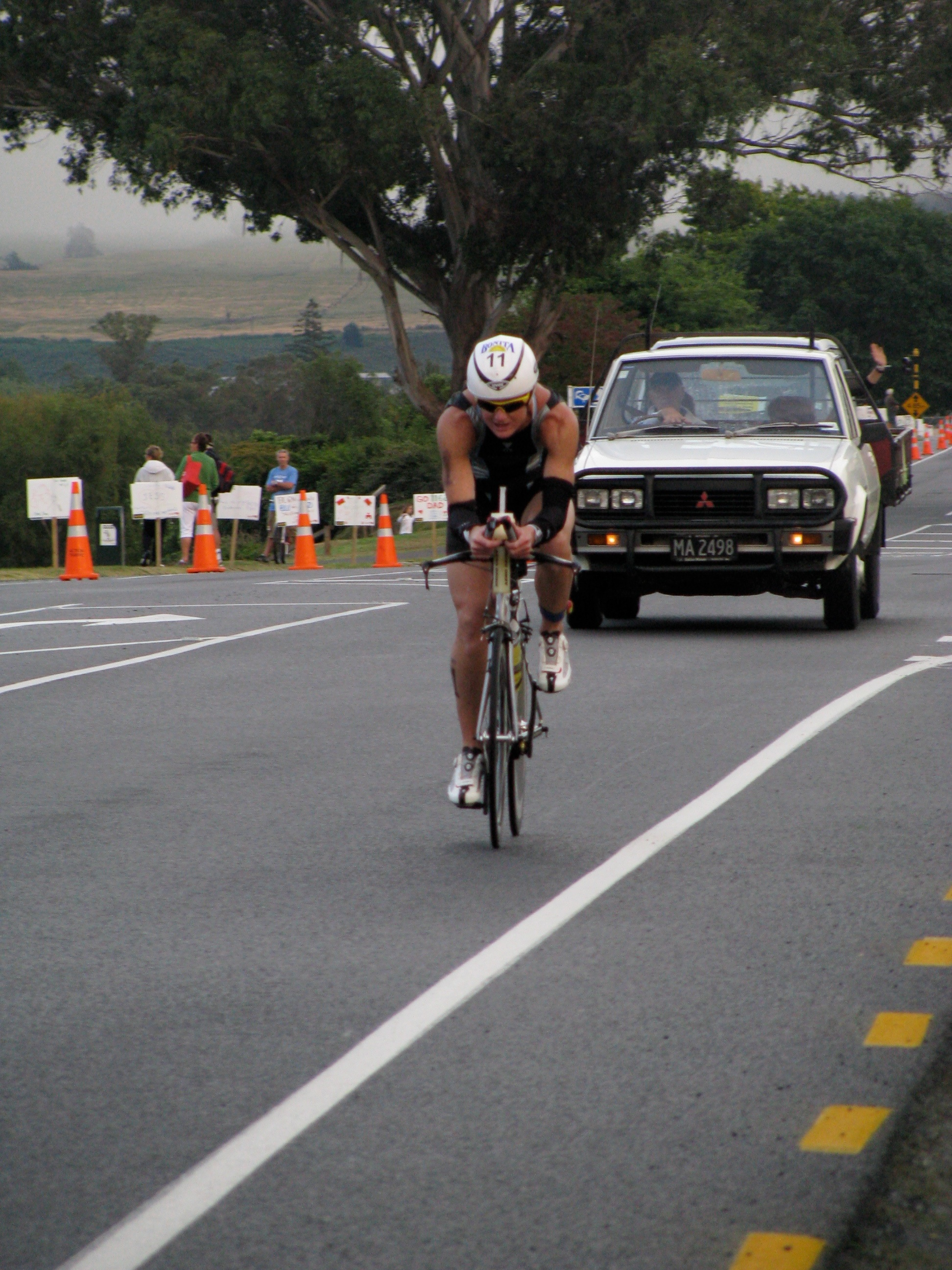 Ironman NZ 2009 Ironman New Zealand in Taupo 2009